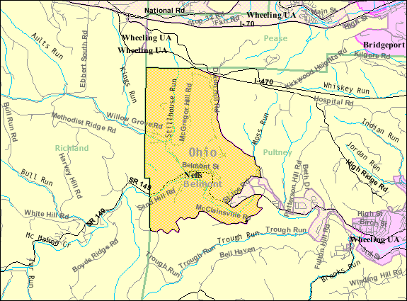 Map of Neffs, a census-designated place (CDP) in Belmont County, Ohio, United States, with its boundaries at the time of the 2000 census.